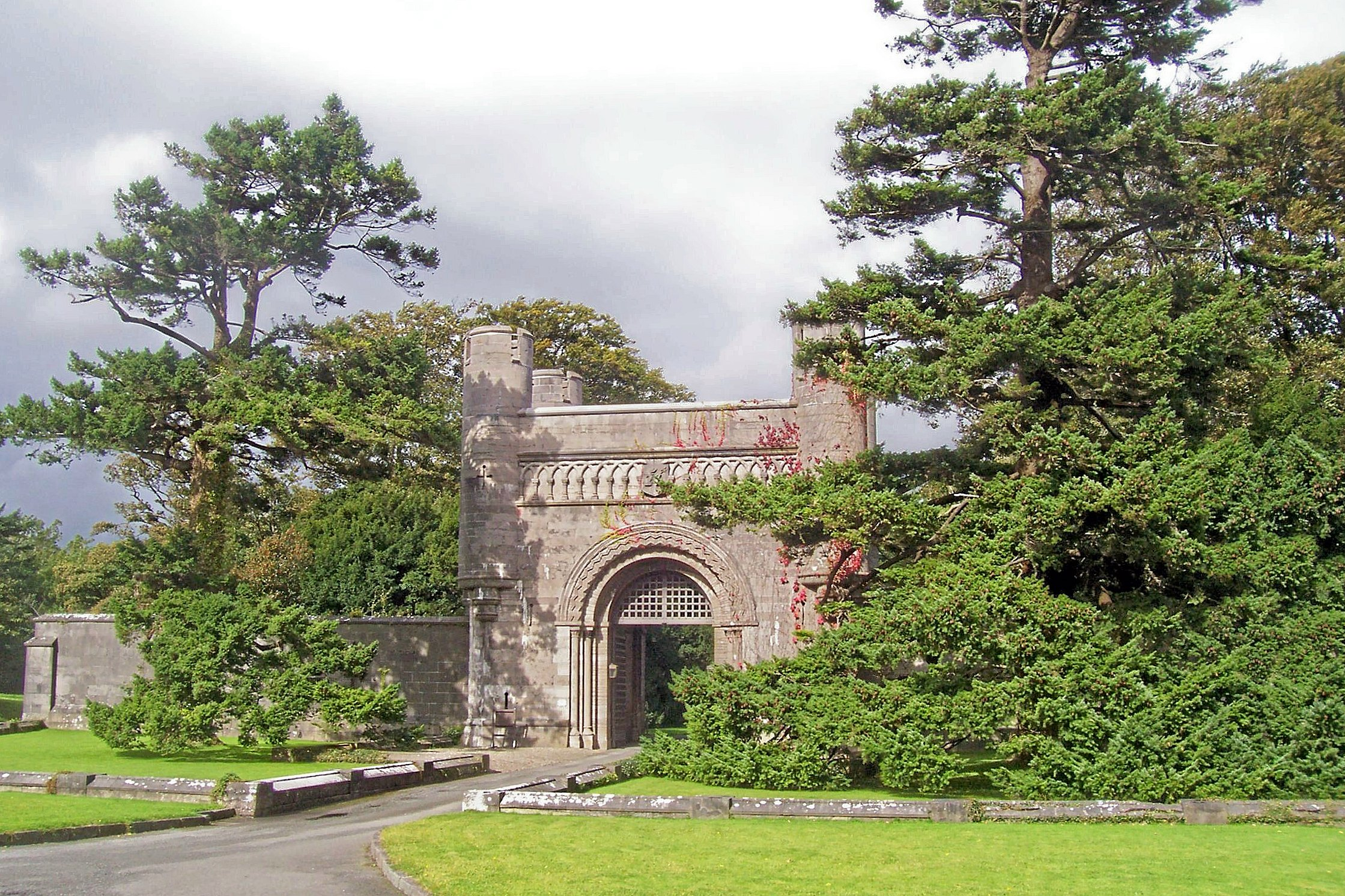 Grand Lodge (main gate house) of Penrhyn Castle